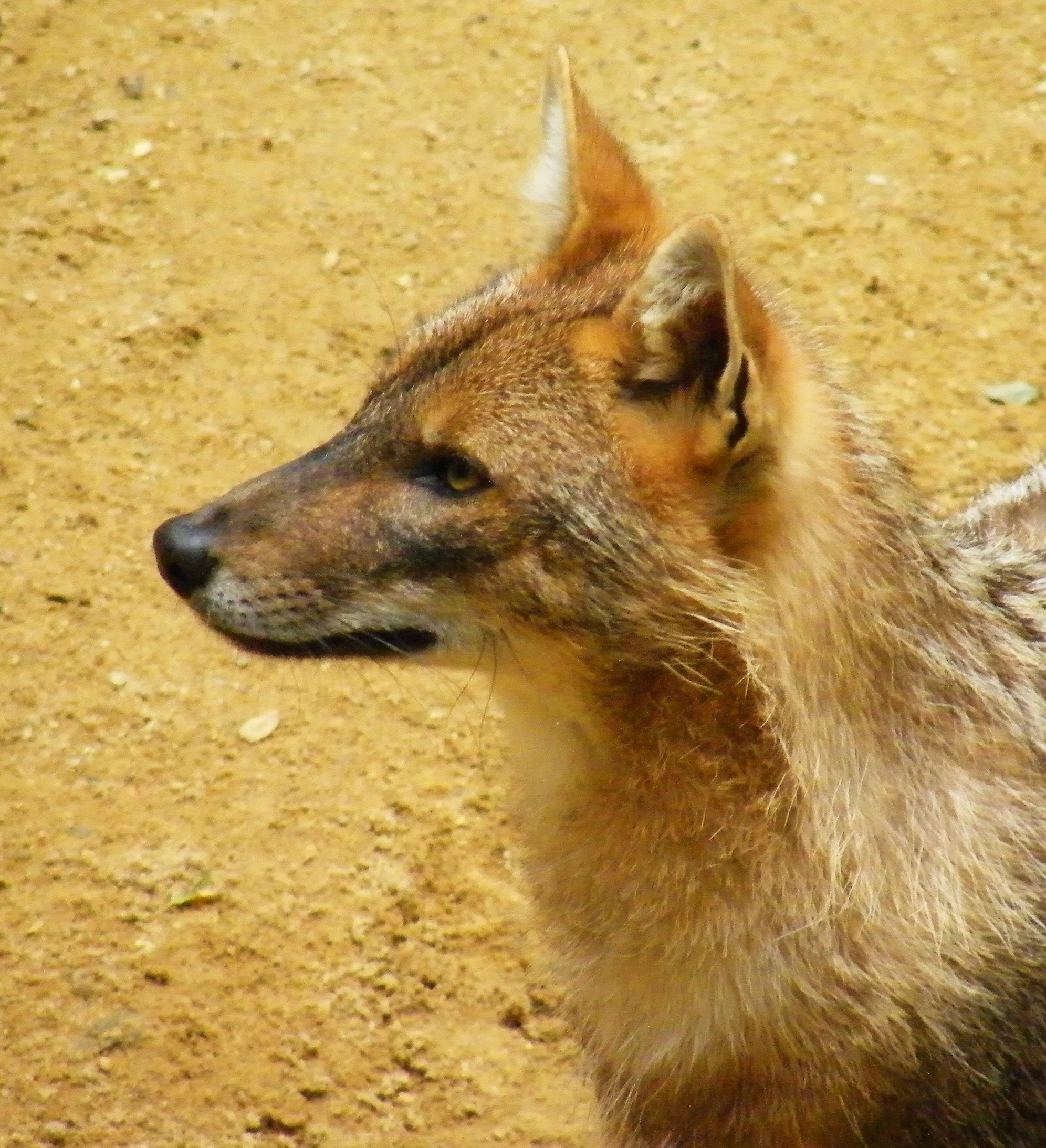 Golden Jackal (Canis aureus) in Pécs Zoo